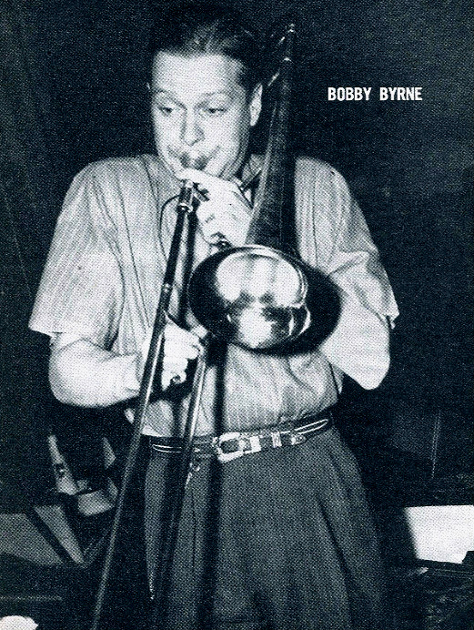 Photo of musician Bobby Byrne from the cover of the March 25, 1946 issue of Down Beat.